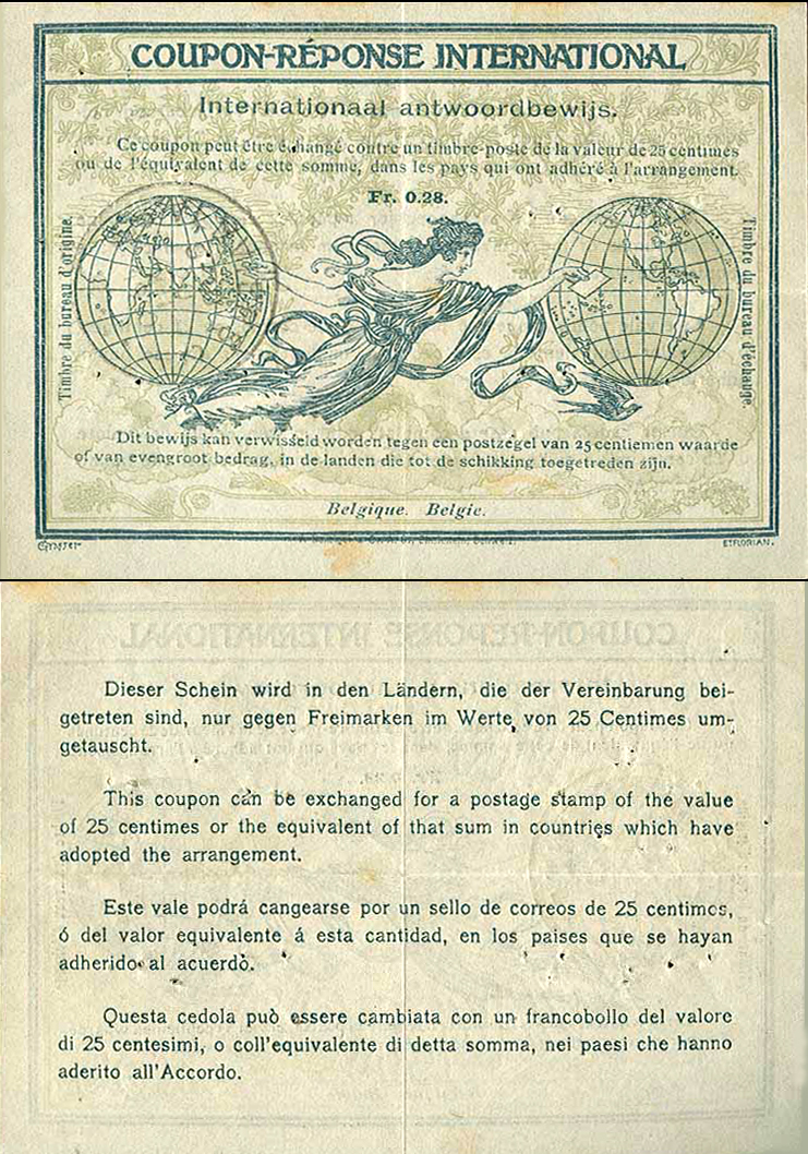 International reply coupon of Belgium, was exchangeable in any country of the Universal Postal Union, Roma type, 1907 (face and reverse side)